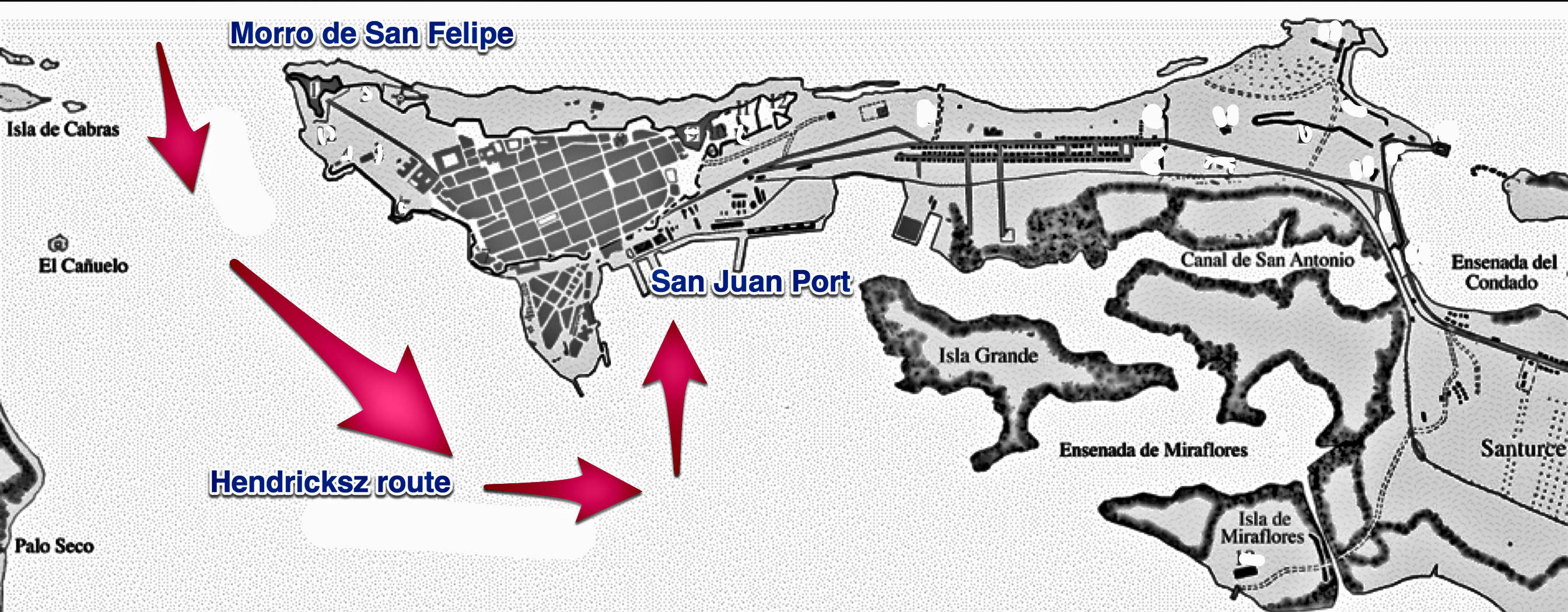 A map of the San Juan Bay, Port and Islet with arrows representing the route that the Dutch commander Hendricksz took in the worse attack on the city yet.